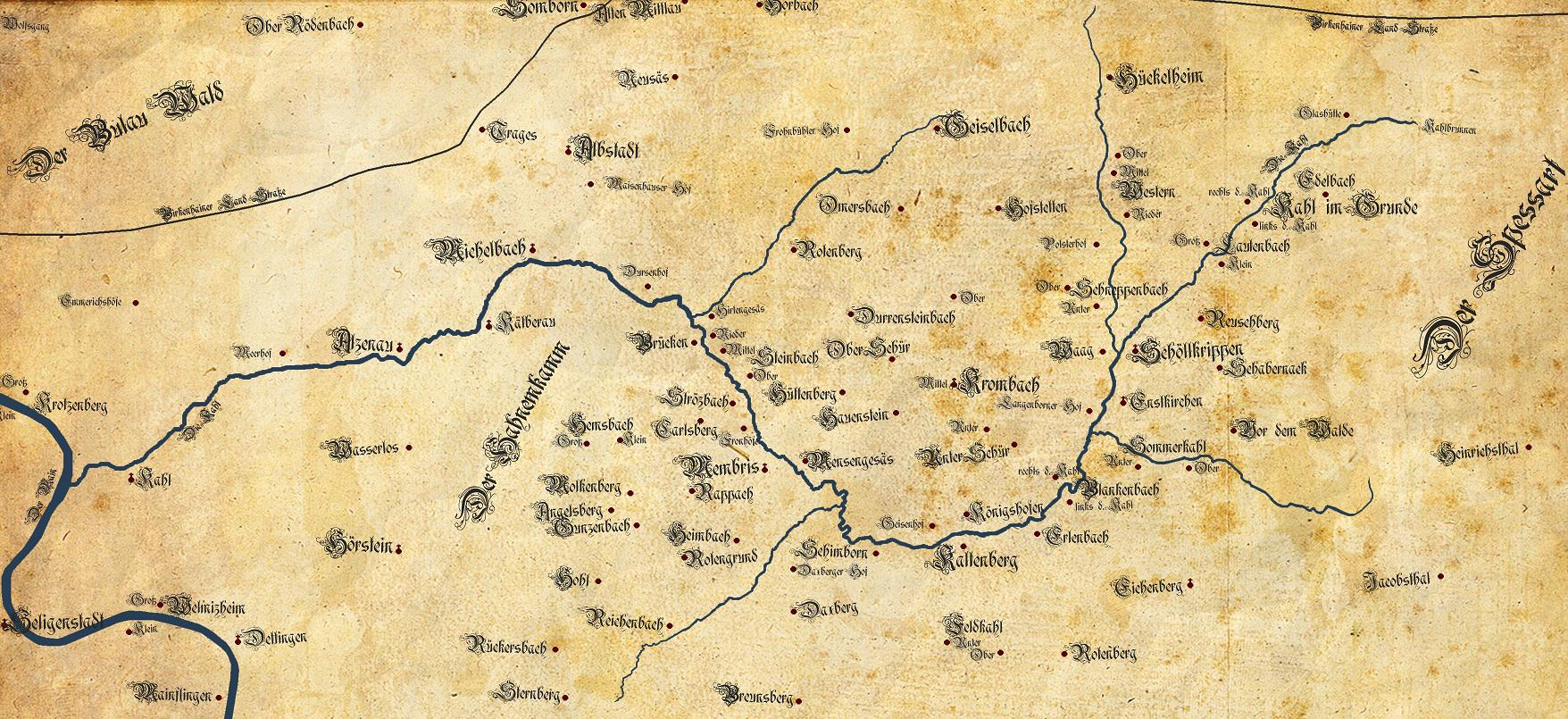 The area around the Kahlgrund around the year 1820. Traced from the maps of the Großherzogthum Frankfurt, the Untermainkreis and the Königreich Baiern